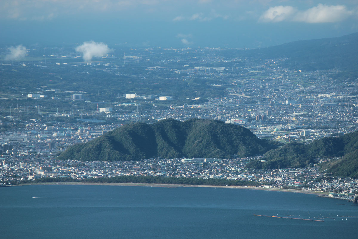 Mount Kanuki as seen from the SSW in Numazu, Shizuoka Prefecture. Taken from Darumayama-kogen Rest House.